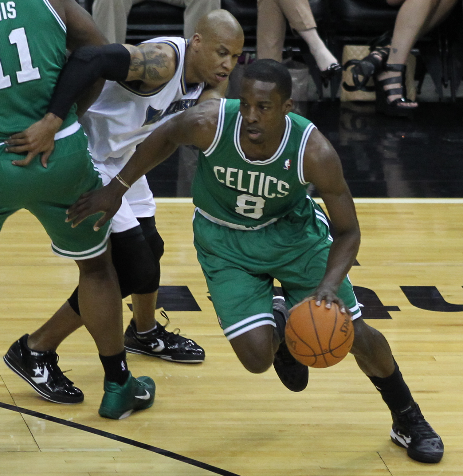 Jeff Green